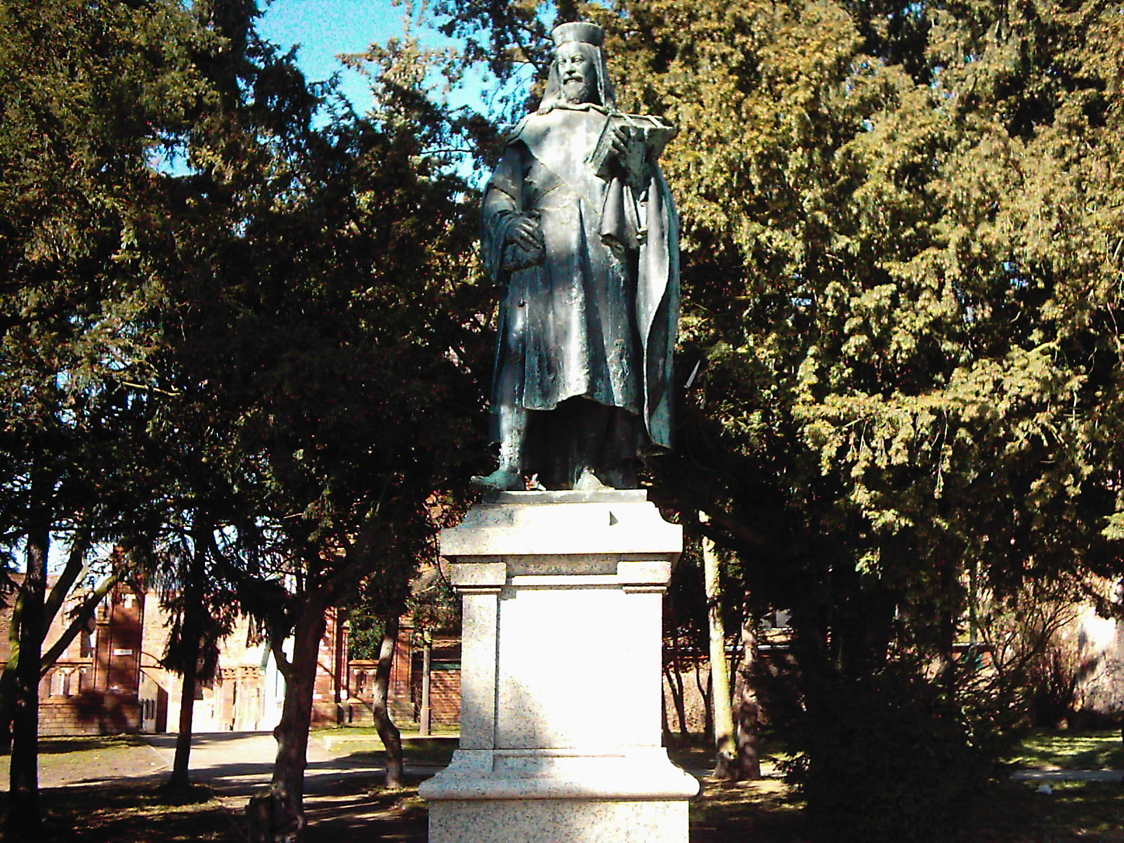 Statue of Emperor Charles IV of the Holy Roman Empire on acropolis hill in Tangermünde